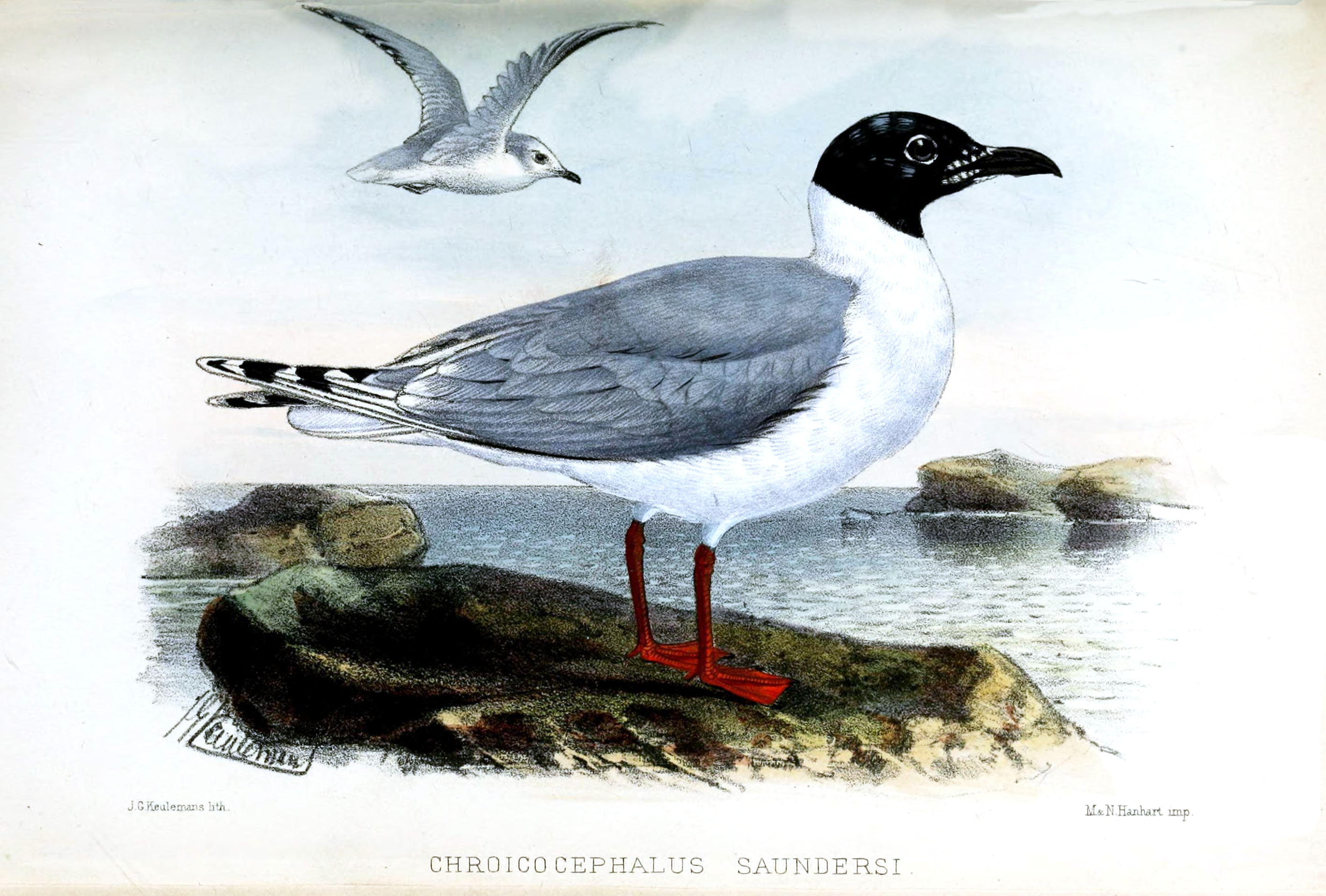 Chroicocephalus saundersi